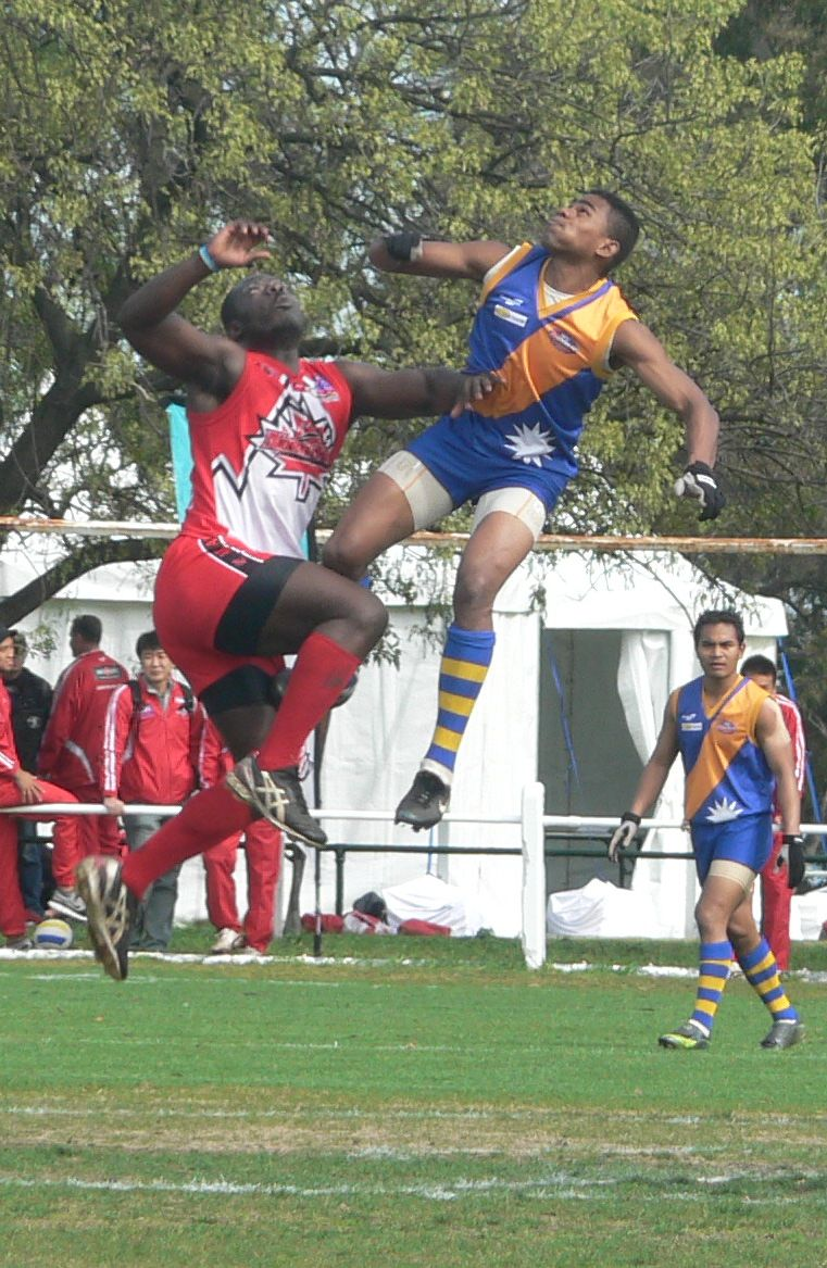 Ruck contest between Nauru and Canada at the 2008 Australian Football International Cup